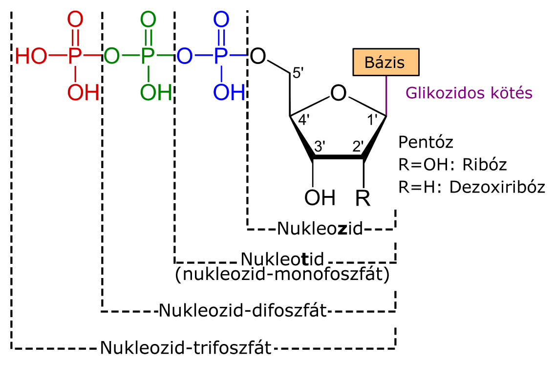 general overview of nucleotides and nucleosides